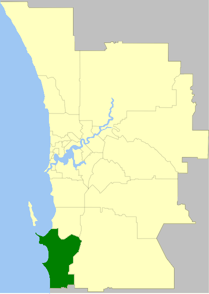 Location of the Local Government Area City of Rockingham in Perth, Western Australia